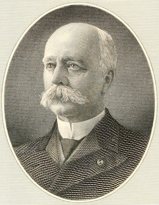 William H. Parker, South Dakota Congressman